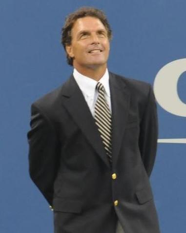 Doug Flutie at the 2009 US Open